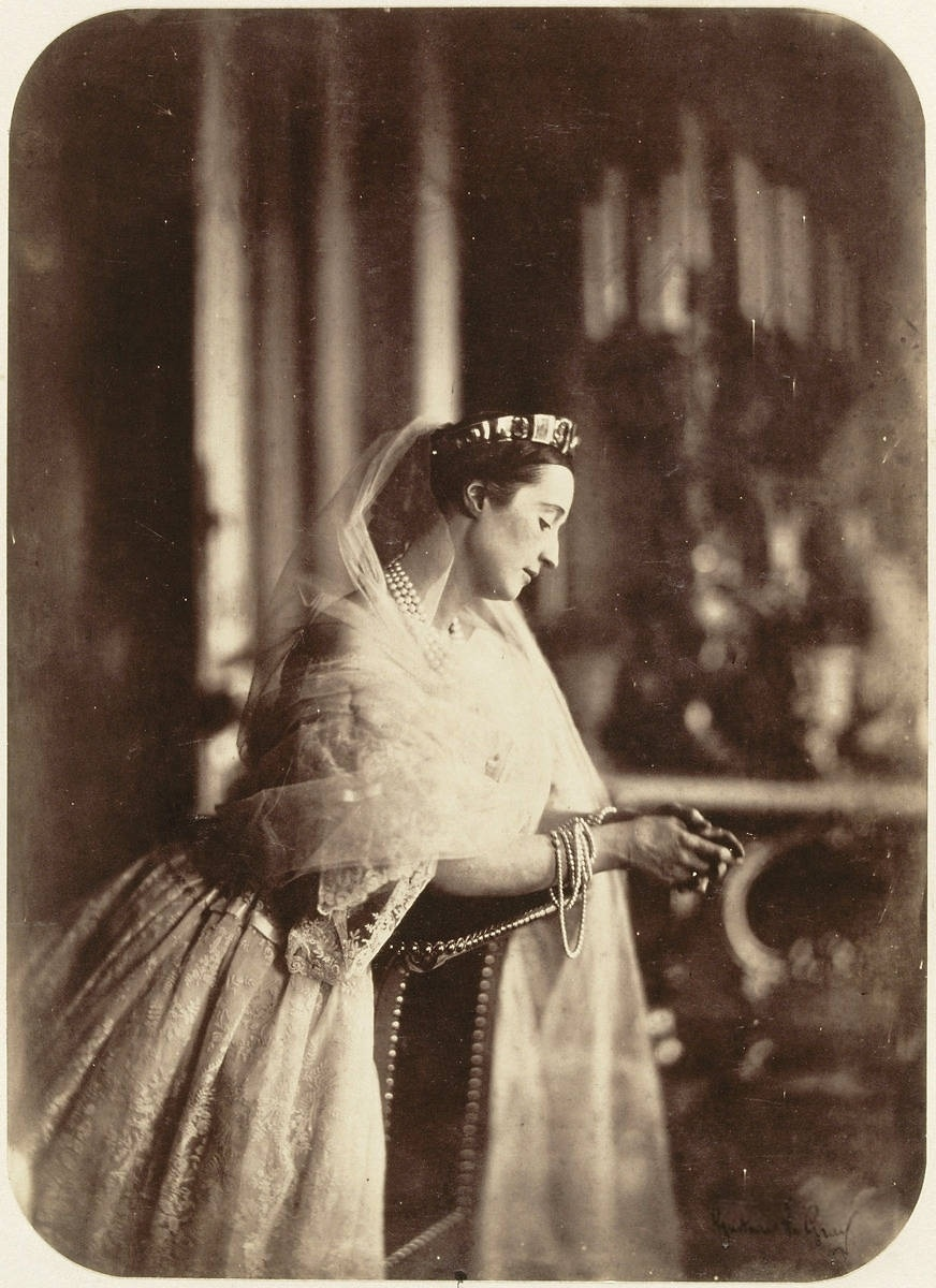 Eugenie, Empress of the French